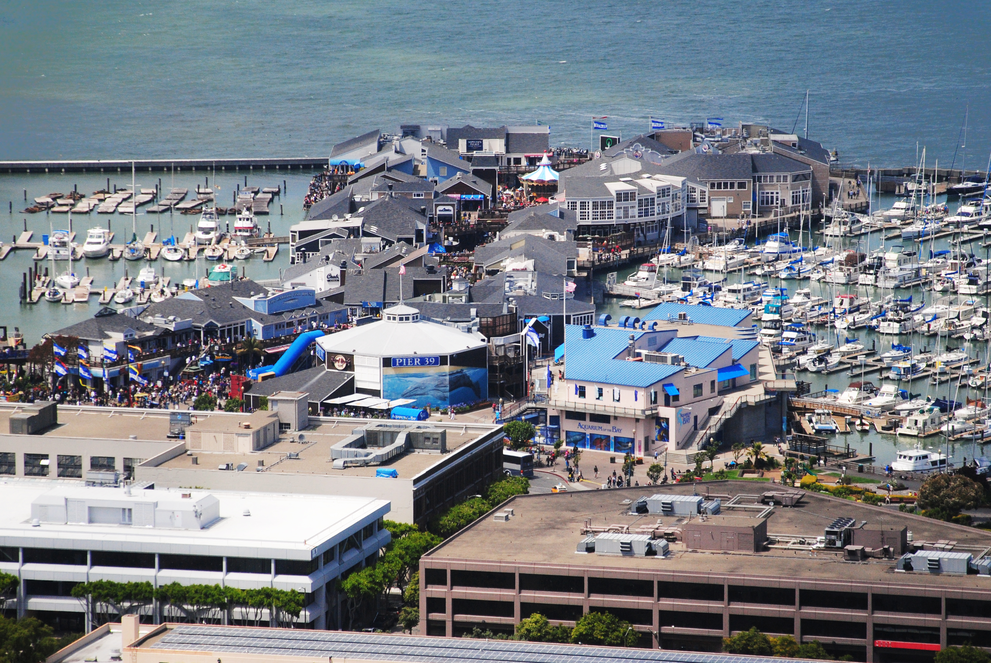 Pier 39 seen from atop Coit Tower